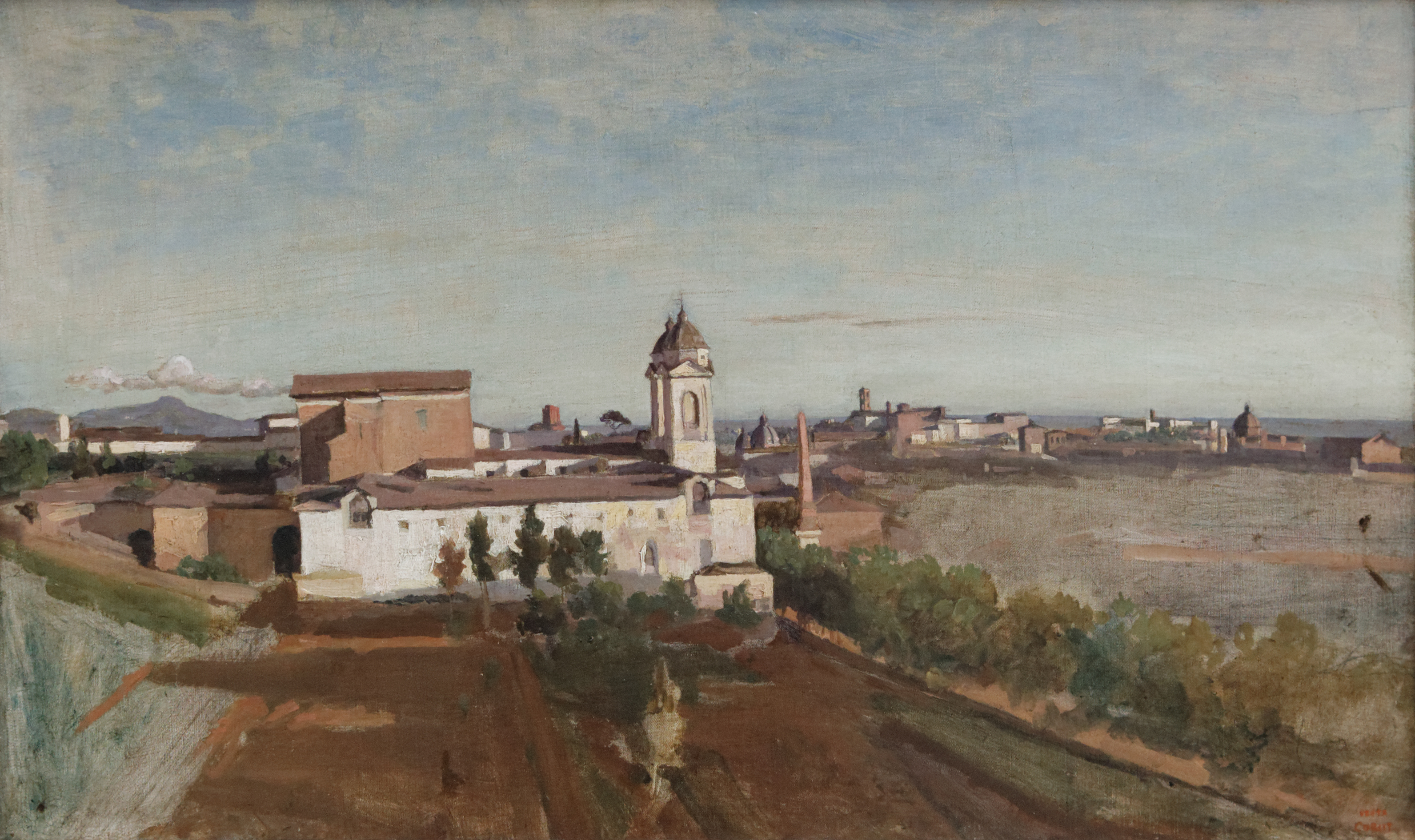 Unfinished study of Trinità dei Monti, view from Villa Medici.